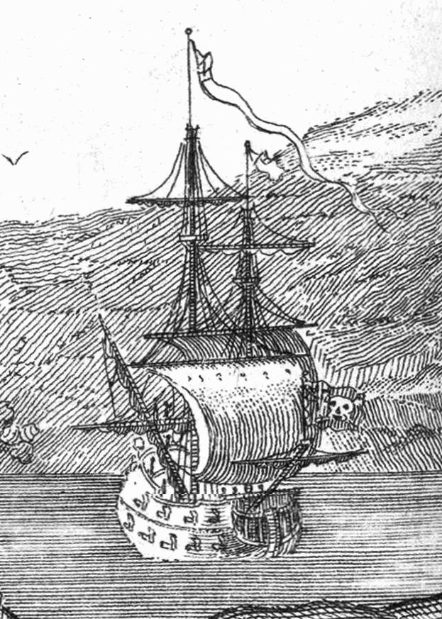 Queen Anne's Revenge, the flagship of Blackbeard the Pirate. This picture is taken from File:Edward Teach Commonly Call'd Black Beard (bw).jpg